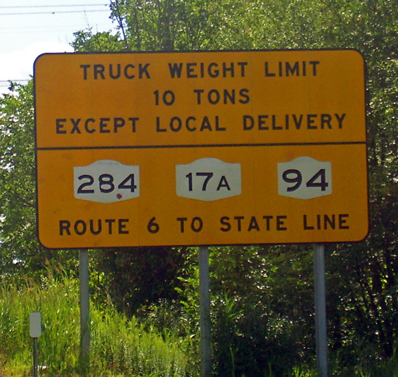 Photographed by Daniel Case along I-84 west of Middletown 2006-08-16